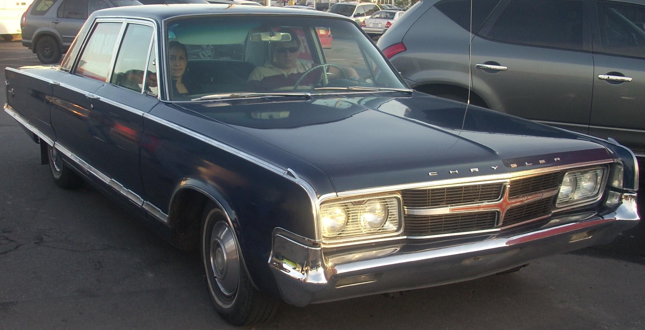 1965 Chrysler Saratoga 300 (Canadian) 4-door sedan photographed in Montreal, Quebec, Canada at Gibeau Orange Julep.